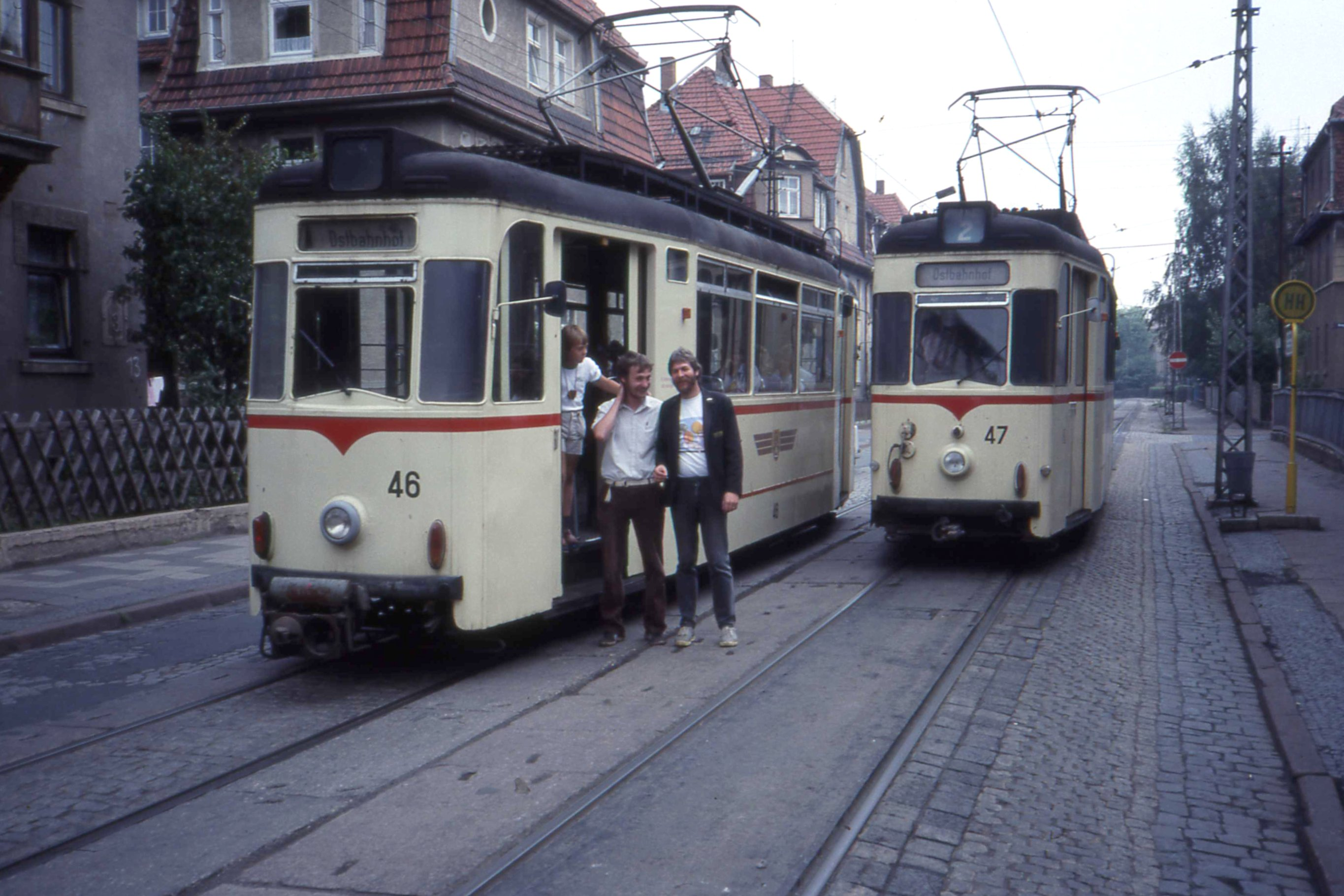 A wider angle (35mm lens slide as opposed to 70mm lens print film image which is elsewhere in my stream with notes. The route 2 was operating as a shuttle service between Ostbahnhof and the main junction owing to track laying work, using these two double ended cars, 46 and 47 which both survive.